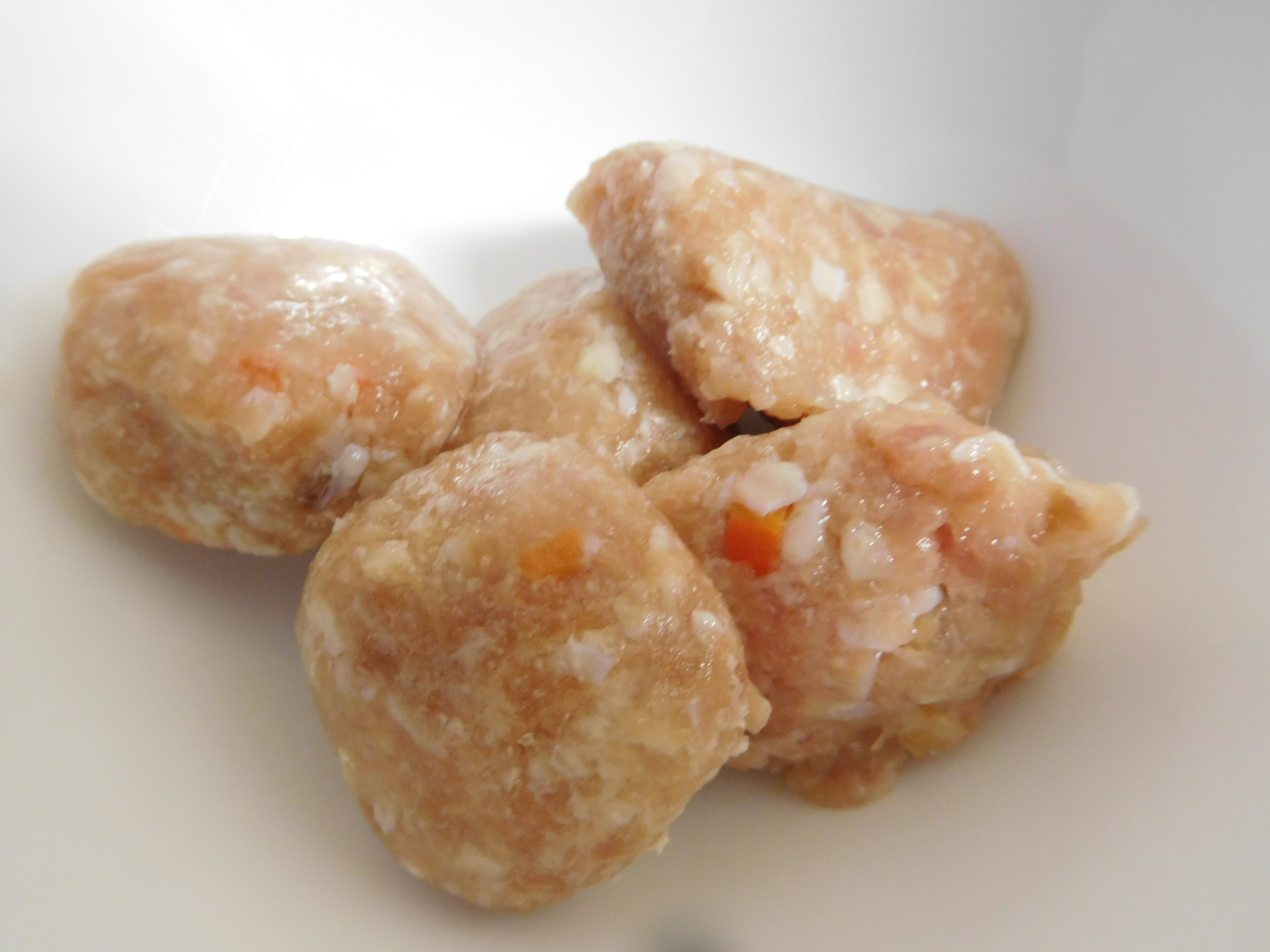 These are chicken meatballs.